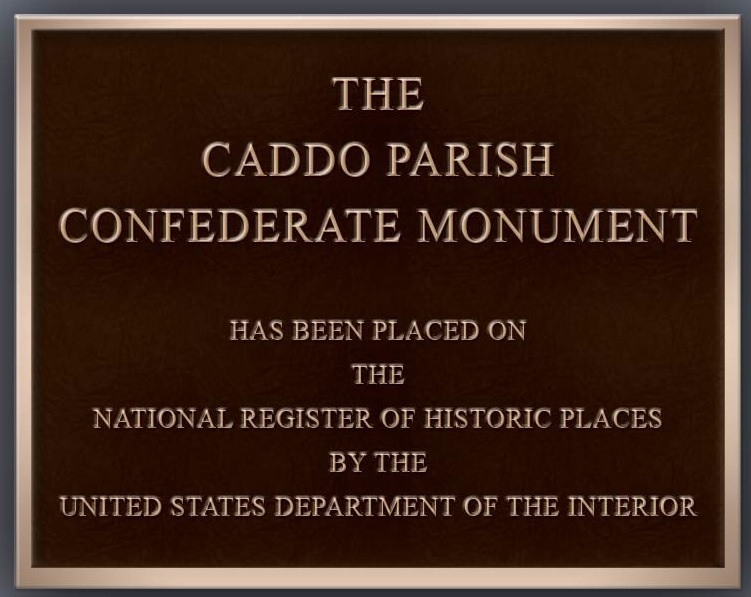 National Historic Place Plaque